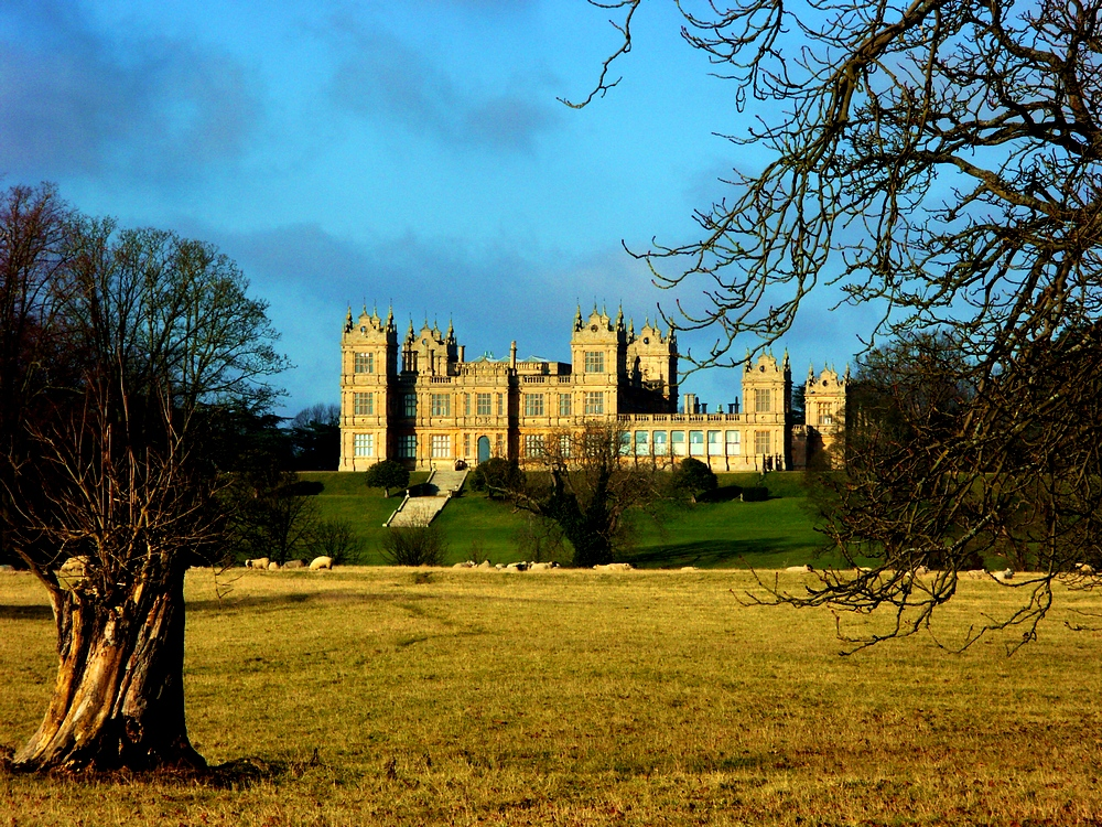 A distant view of the Mentmore Towers.